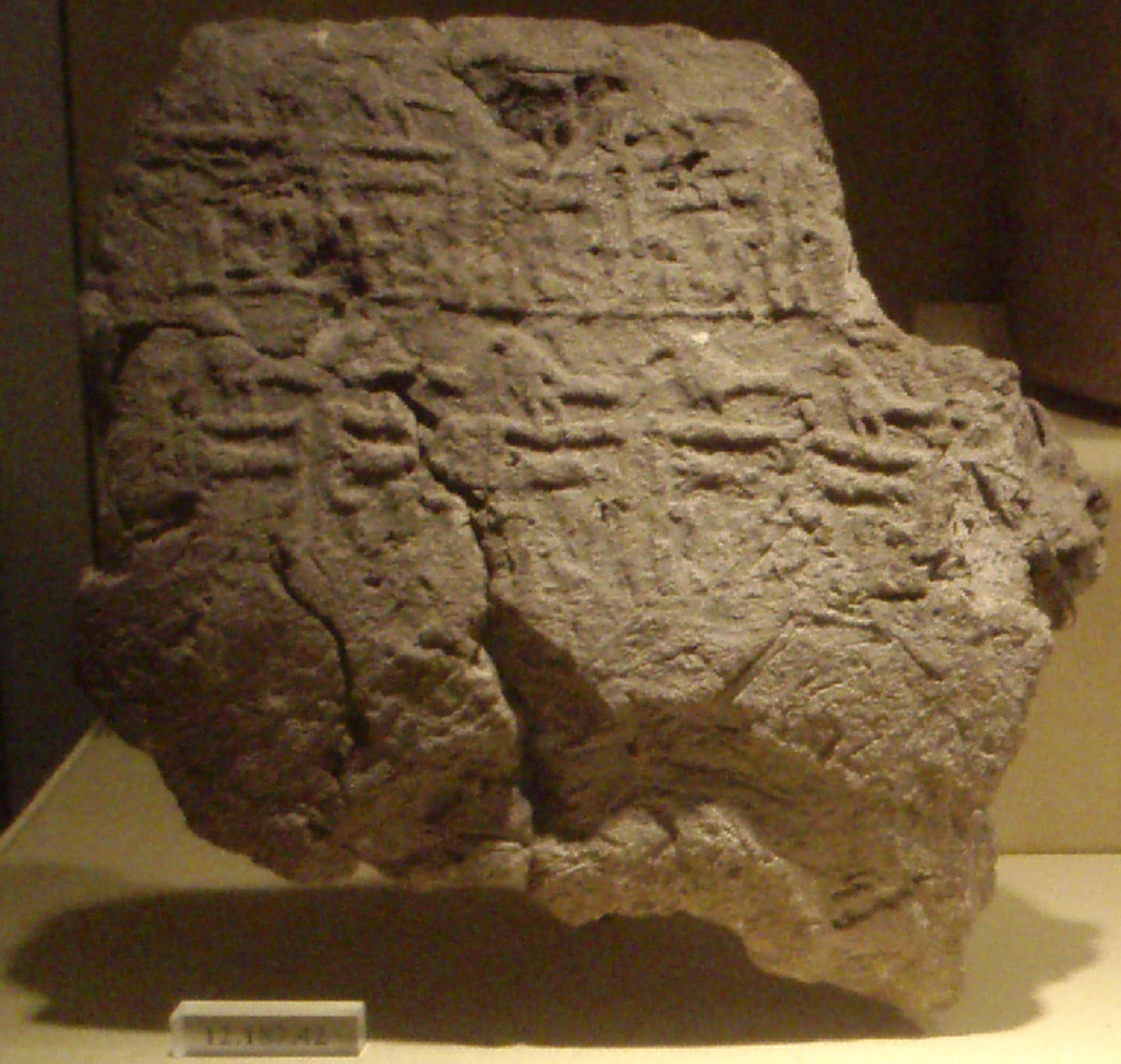 A mud jar sealing bearing the name of the pharaoh Narmer. Late Naqada III period, circa 3100 B.C., from Tarkhan.